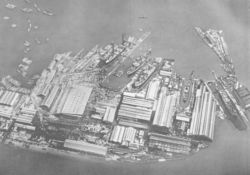 Yokohama Dock Company.